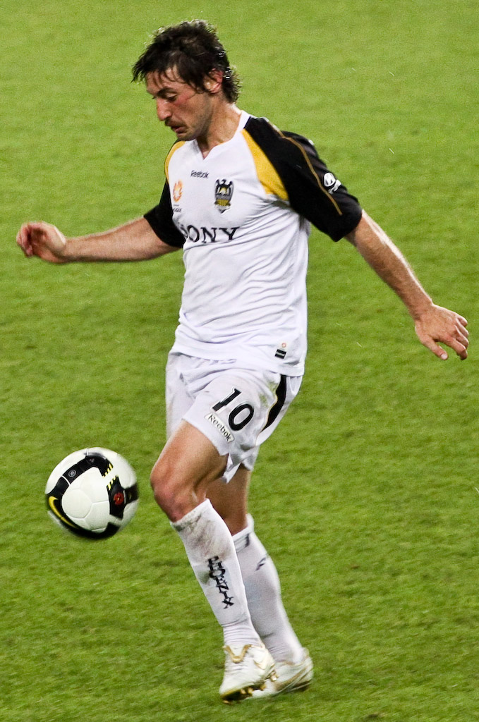 Michael Ferrante playing for Wellington Phoenix against Sydney FC in round 11 of the 08/09 A-League.